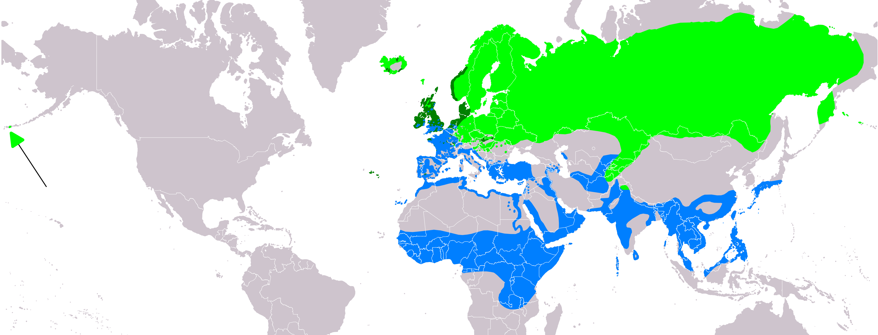 Distribution map of common snipe (Gallinago gallinago) according to IUCN version 2019-2 ; key: Legend: Extant, breeding (#00FF00), Extant, resident (#008000), Extant, non-breeding (#007FFF)